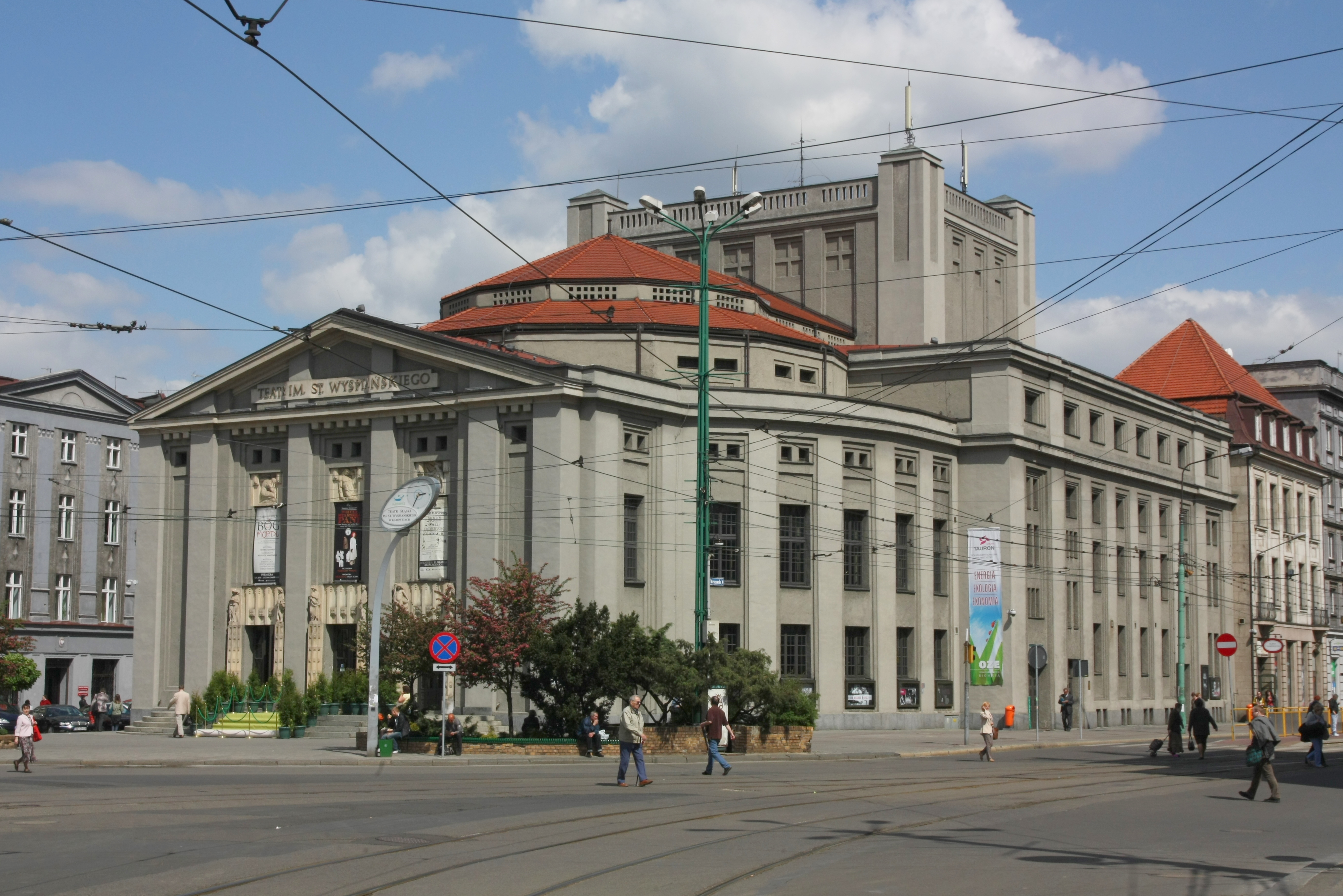 Silesian Theatre in Katowice.